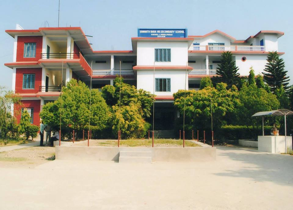 an ancient school of sunwal